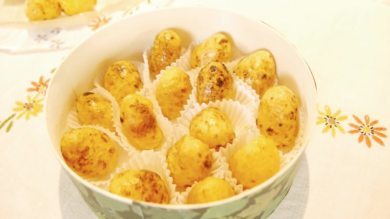 Castanhas de ovos (egg chestnuts), a traditional Portuguese sweet